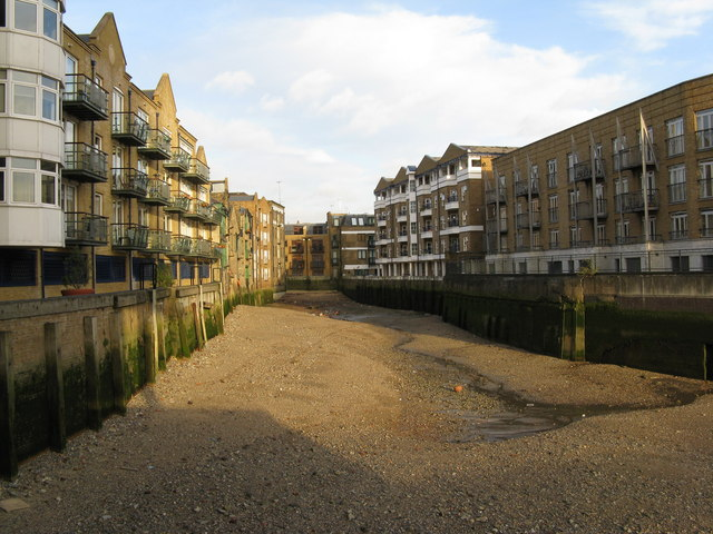 Limekiln Dock Limekiln Dock has been dry and disused for many years now. The photograph was taken from a footbridge which now spans its mouth, forming part of the Thames Path.